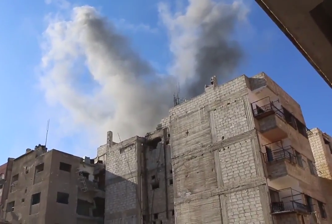 Smoke rises from a building in the Damascus suburb of Jobar after being hit by a hit by a bomb during the Qaboun offensive (February–March 2017).